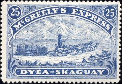 McGreely's Express, Alaska, local stamp, 1898, 25c. Dogsled mail (dog team mail) Dyea — Skaguay.